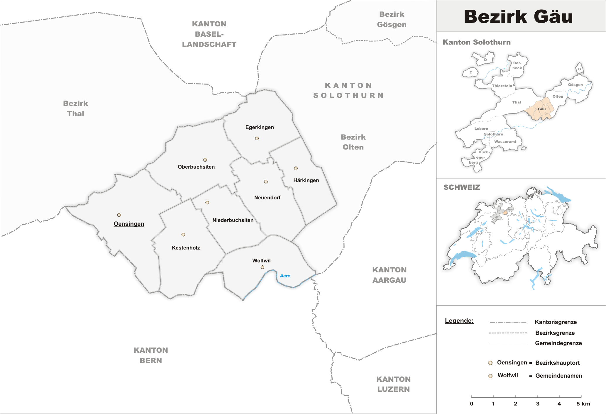 Municipalities in the district of Gäu